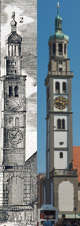 Comparison of the Perlachturm, drawn about 1818 and photographed 2014